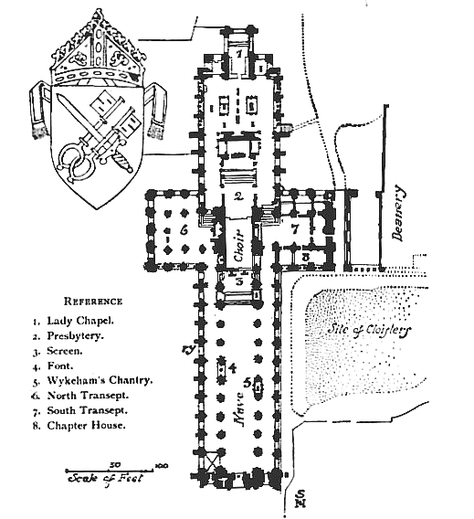 A plan of Winchester Cathedral in England. Taken from Winchester, Sidney Heath (1911). From Project Gutenburg which states, "This eBook is for the use of anyone anywhere at no cost and with almost no restrictions whatsoever. You may copy it, give it away or re-use it under the terms of the Project Gutenberg License included with this eBook or online at